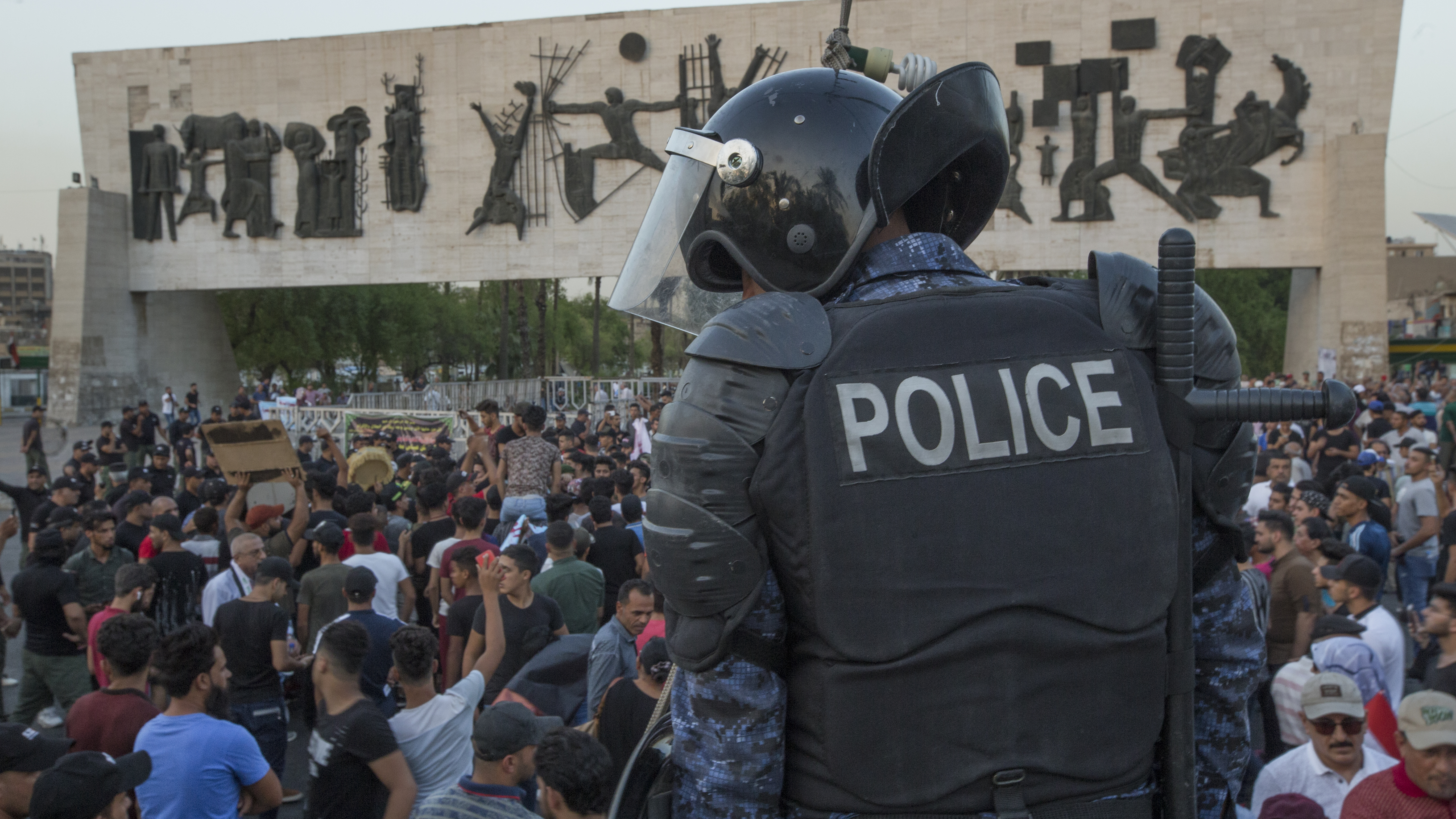 Riot police among the demonstrators in Baghdad